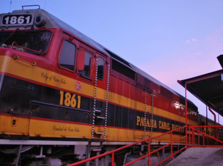 Early morning passenger train in Panama City Railway Station.